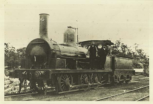 NSWGR E.17 Class Locomotive No.46 on the southern line